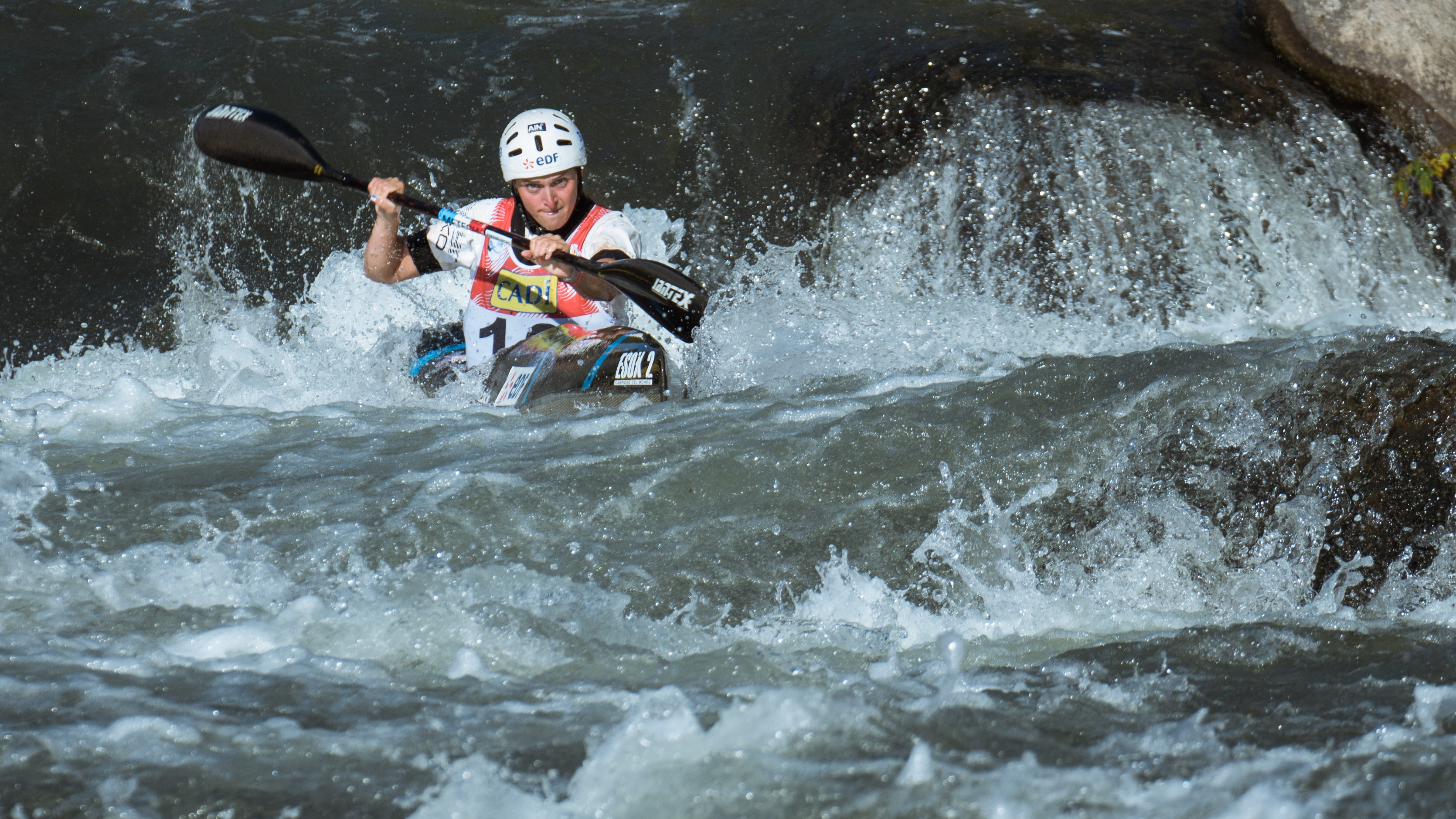 Phénicia Dupras during the 2019 Canoe Wildwater World Championships in La Seu d'Urgell, Spain.